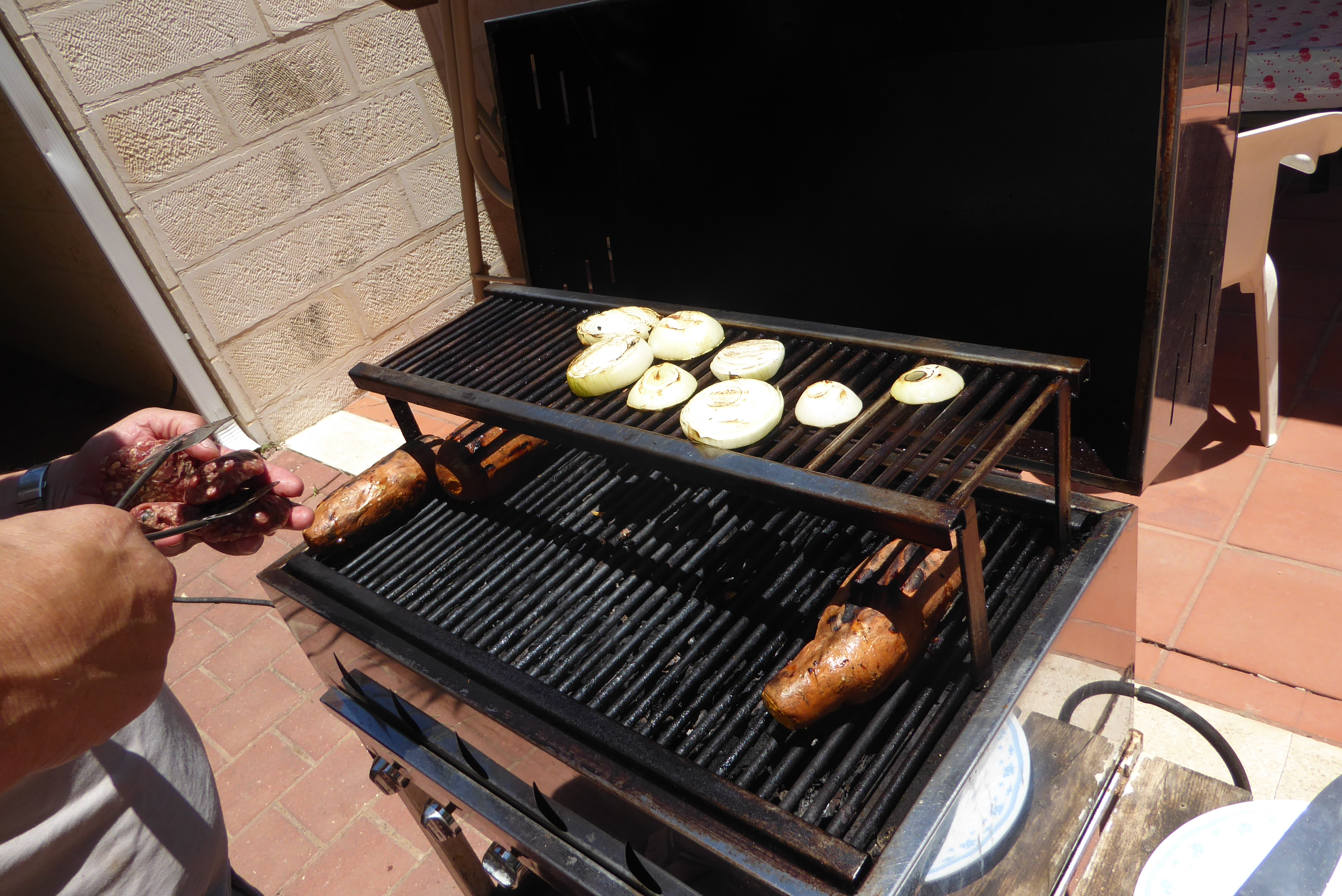 Barbecue in Israel - Onions